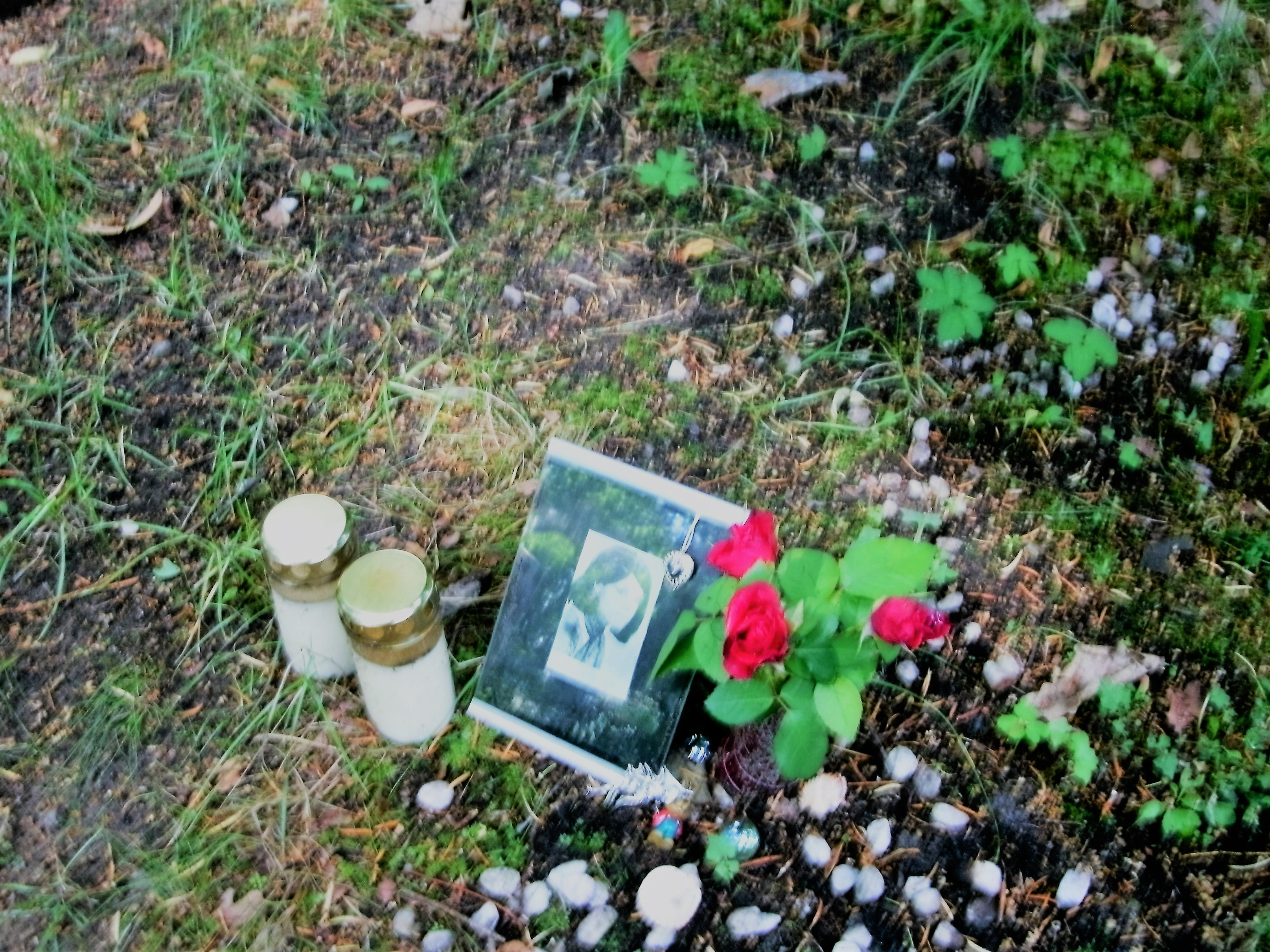 The grave of Petra Schelm which is located in the Stadtischer Friedhof in den Kisseln, in the Berlin borough of Spandau.